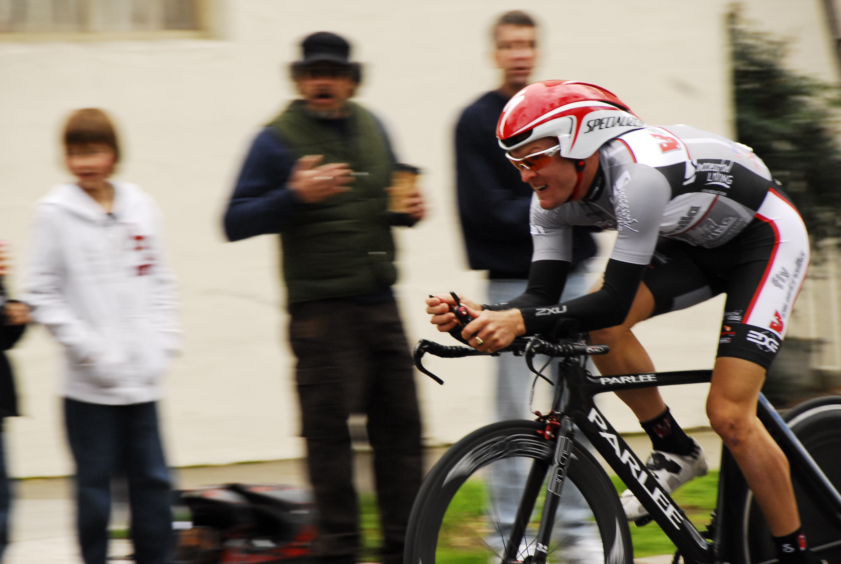 Bernard Sulzberger. Tour of California.